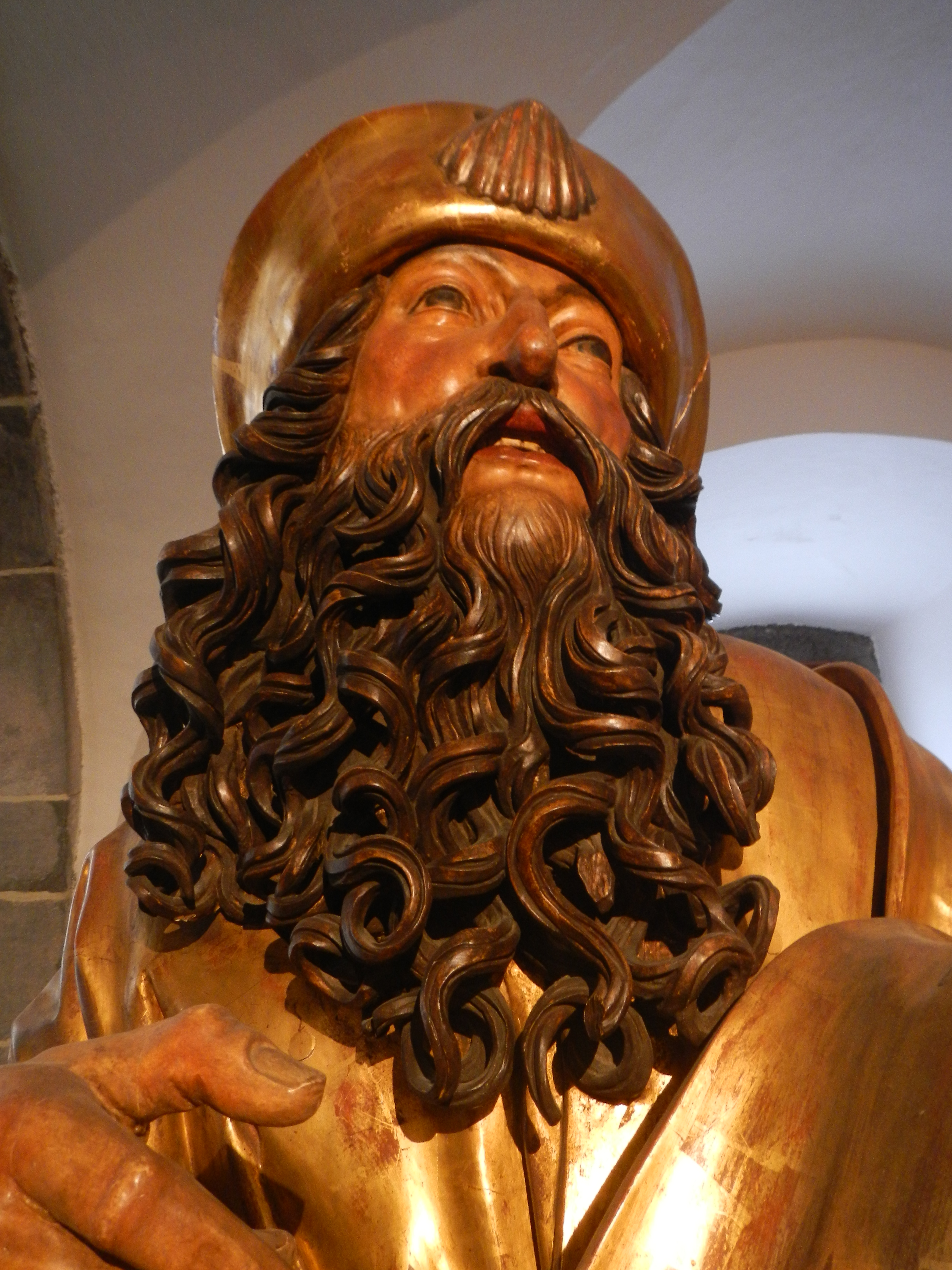 Replica of the St. James statue (by Master Paul of Levoča) from the main altar of the St. James Church in Levoča; at display in Zvolen Castle, Slovakia